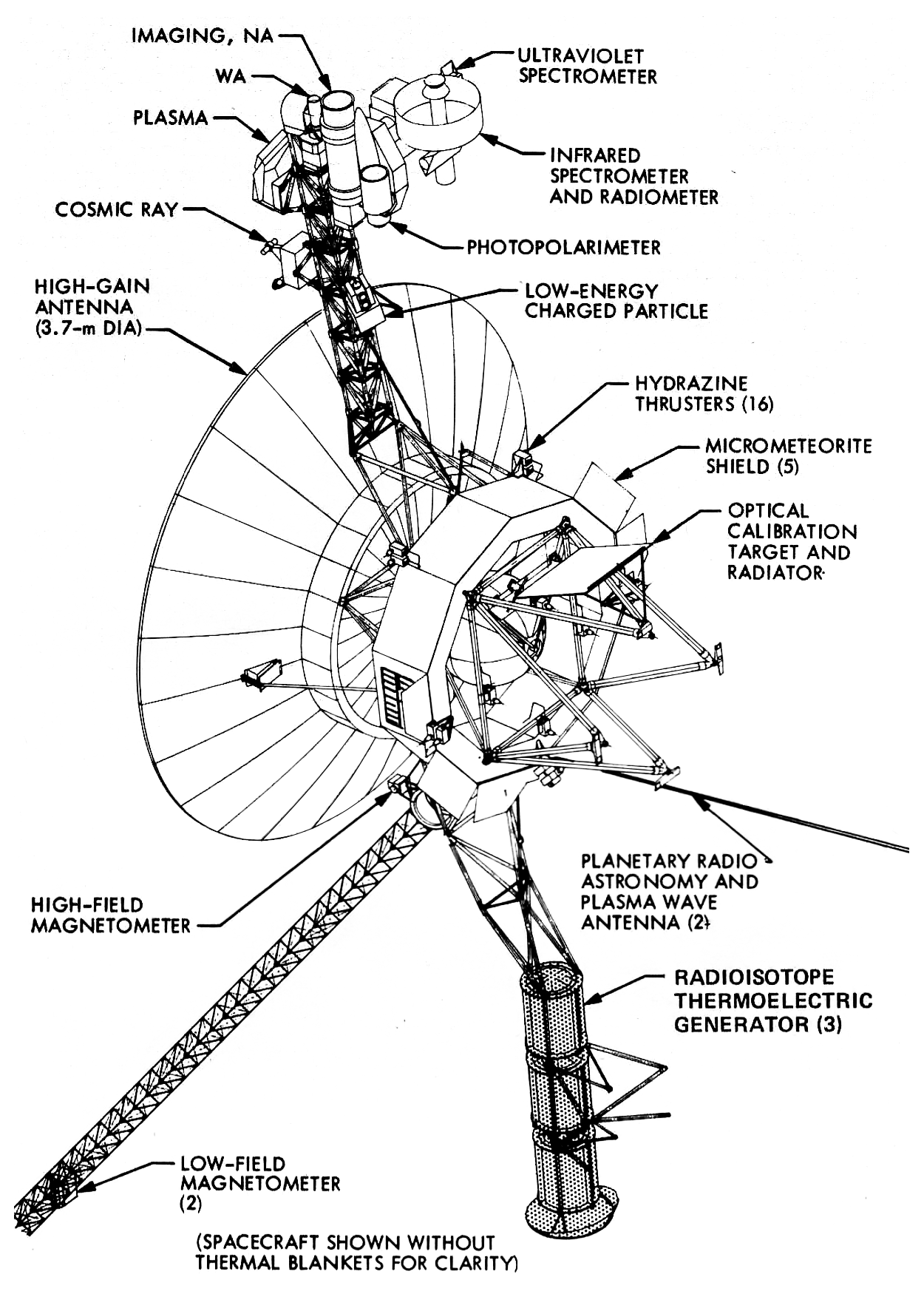 Diagram of the Voyager spacecrafts with labels pointing to the important instruments and systems.